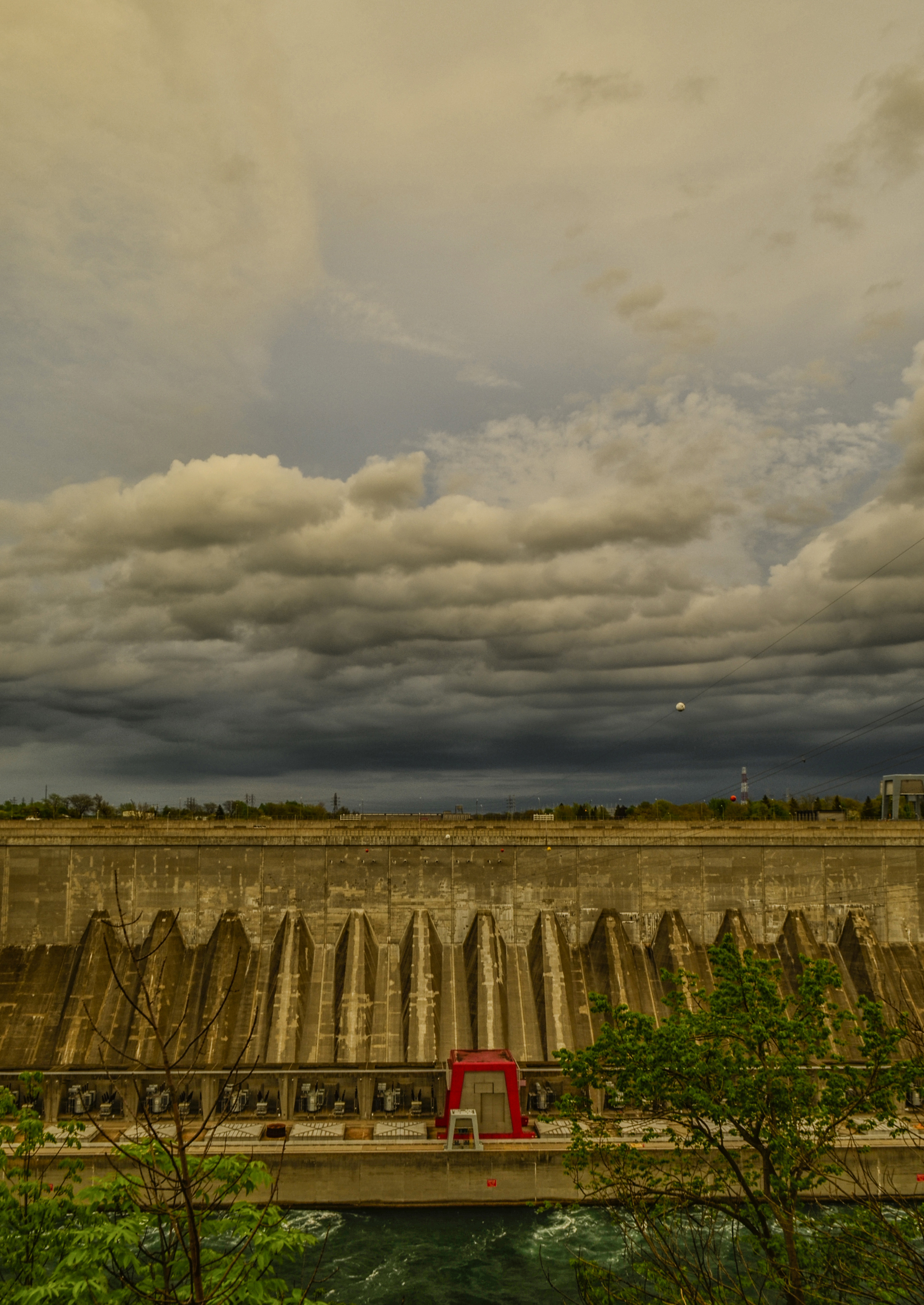 View of Robert Moses Niagara Hydroelectric Power Station in Lewiston, New York from Niagara Parkway in Niagara Falls, Ontario. Me fellow Bando member, one Monsieur Matthew Taggart inquired as to what white balance I was using, of which I replied, "Auto." In turn, I quizzed, "Why forth doth thou ask?" He told me he was shooting in Cloudy mode and allowed me a peep at the LCD screen of his very nice Pentax, so as I could see the nice tannish effect it was producing on his shots. Hell! I thought, if it is good enough for him, who is much wiser than me about such things, mighten I not just give it a whirl myself.